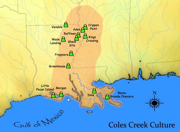 A map showing the geographical extent of the Coles Creek cultural phase in the Southern United States, and some of its important sites.